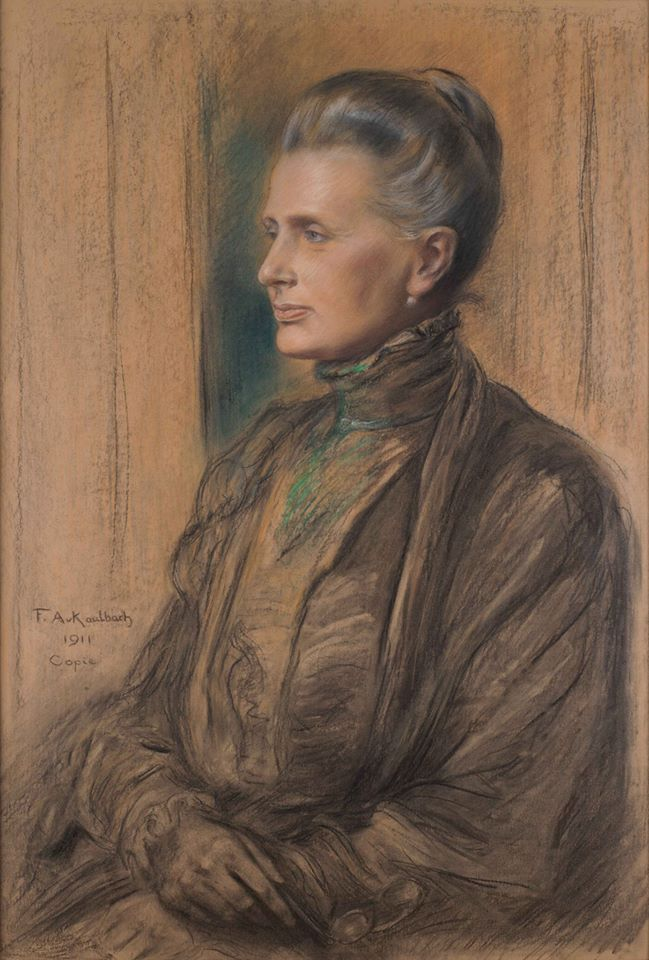 Princess Therese of Bavaria (1850-1925)